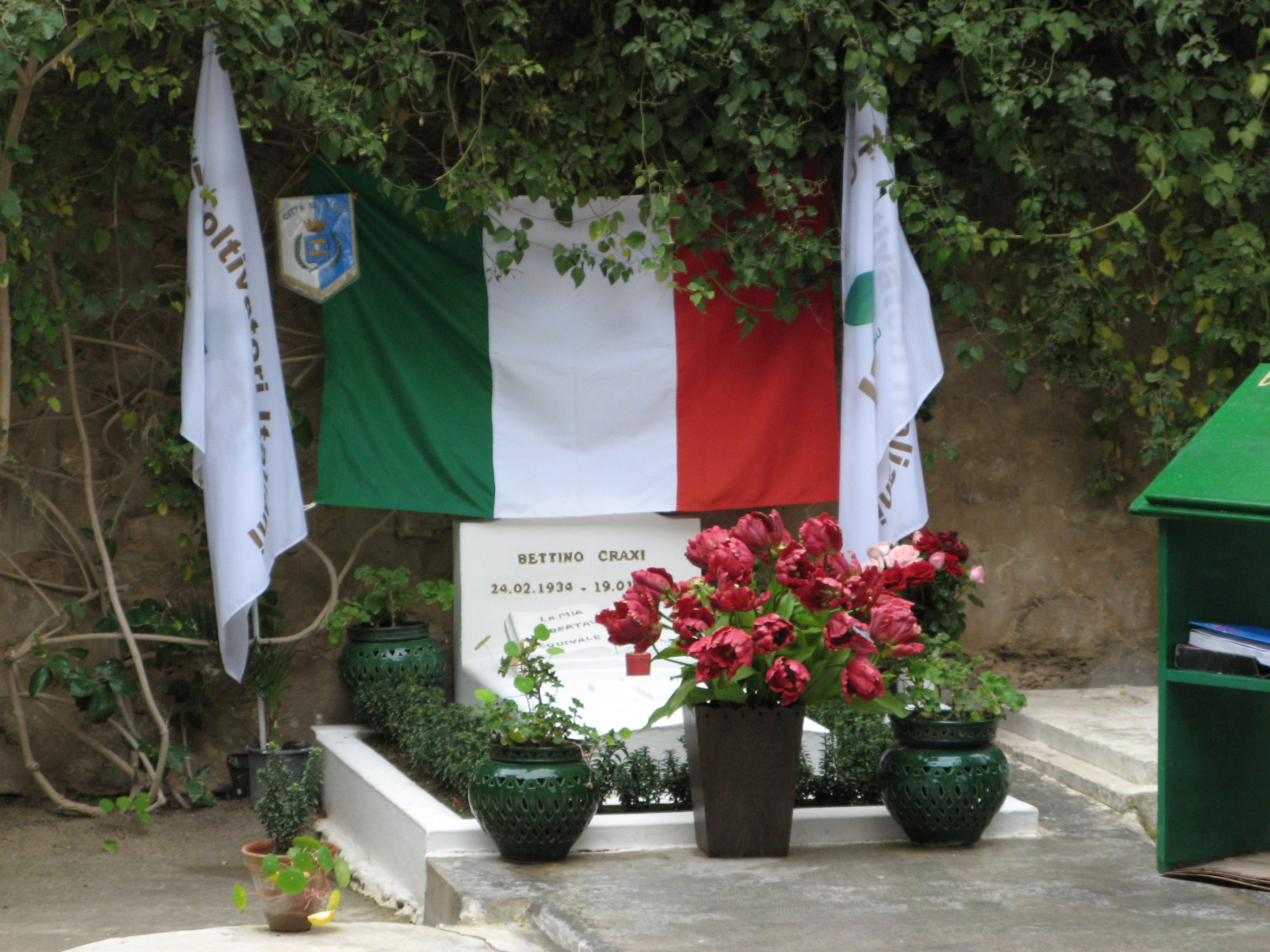 Tomb of Bettino Craxi in Hammamet, Tunisia